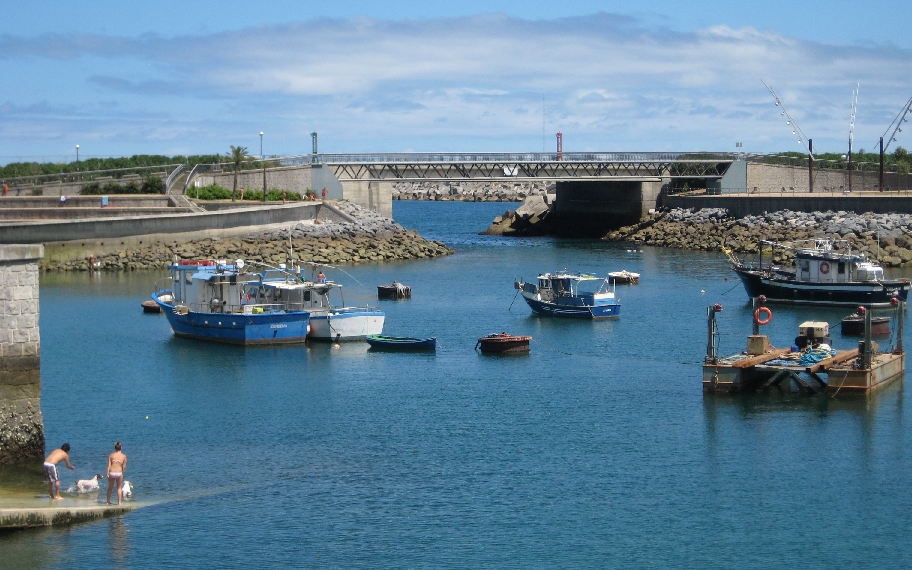 Port of Zierbana